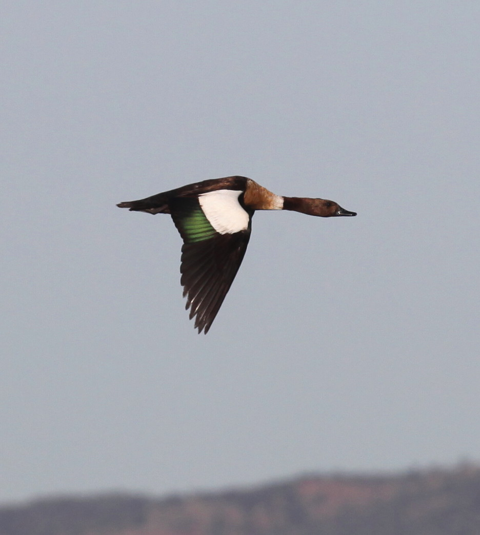 Australian Shelduck (Tadorna tadornoides'), Alice Springs Sewage Ponds, Northern Territory, Australia